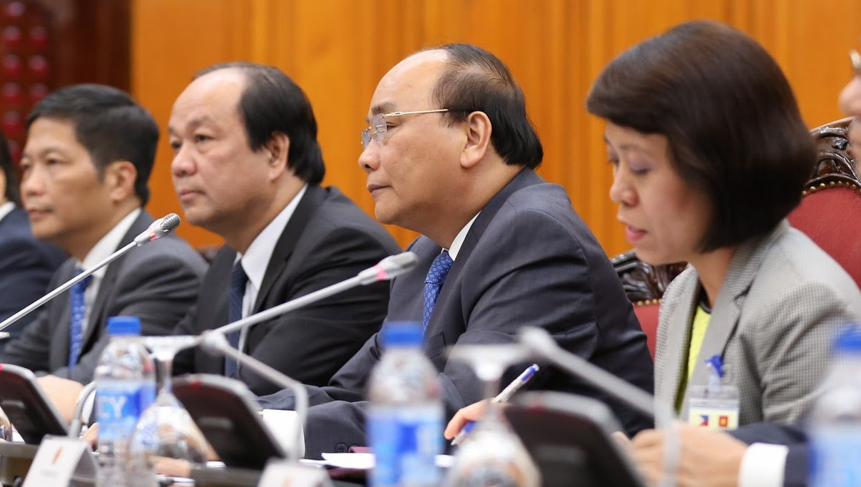 Vietnamese Prime Minister Nguyen Xuan Phuc and his officials talk with their Philippine counterparts during a meeting on September 29. ROBINSON NIÑAL/ Presidential Photo